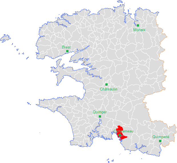 placement Concarneau in departement Finistère